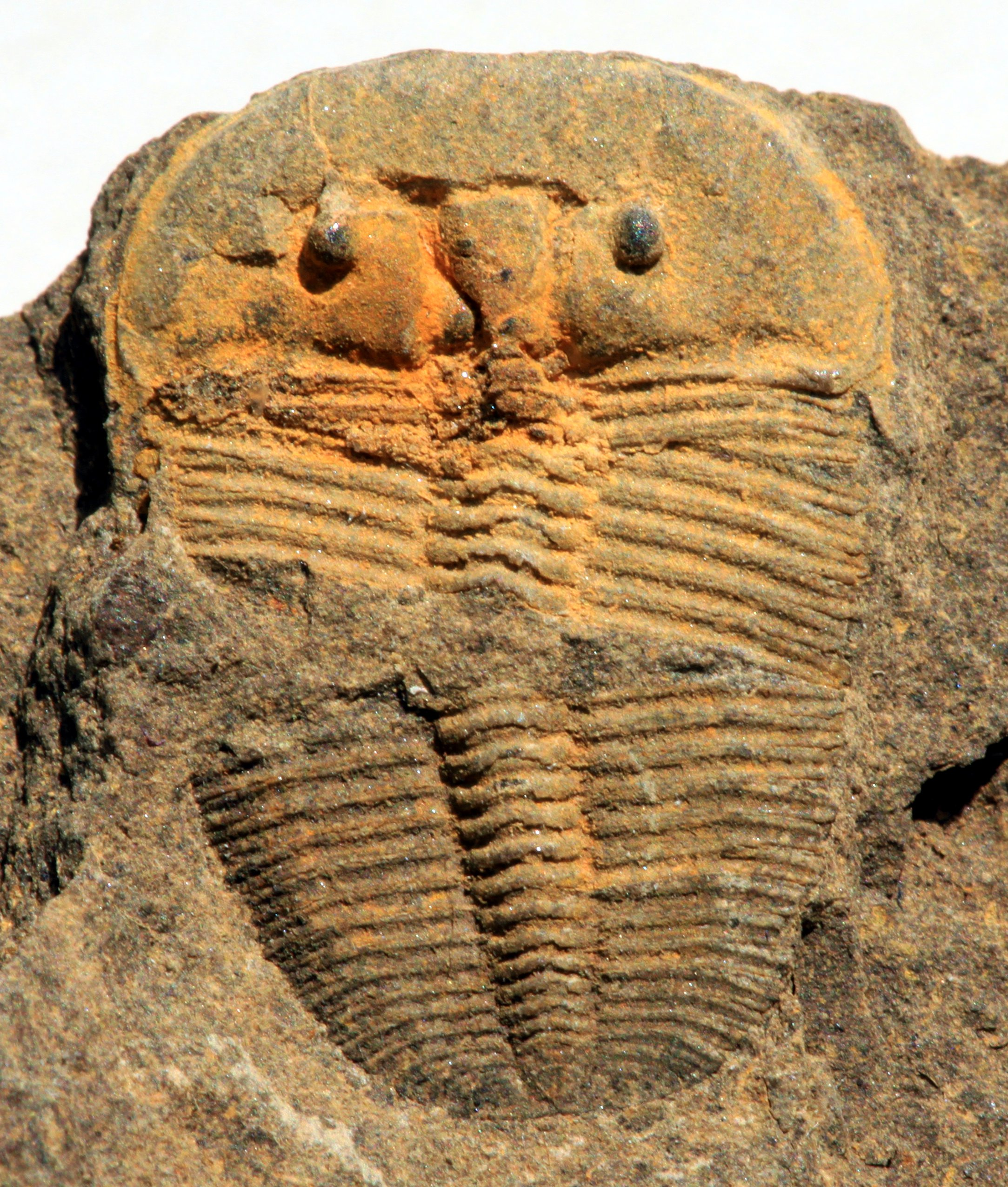 trilobite Aulacopleura konincki, 14mm, Order Proetida, Family Aulacopleuridae, Kosovu Beruna, Czech Republic, Silurian